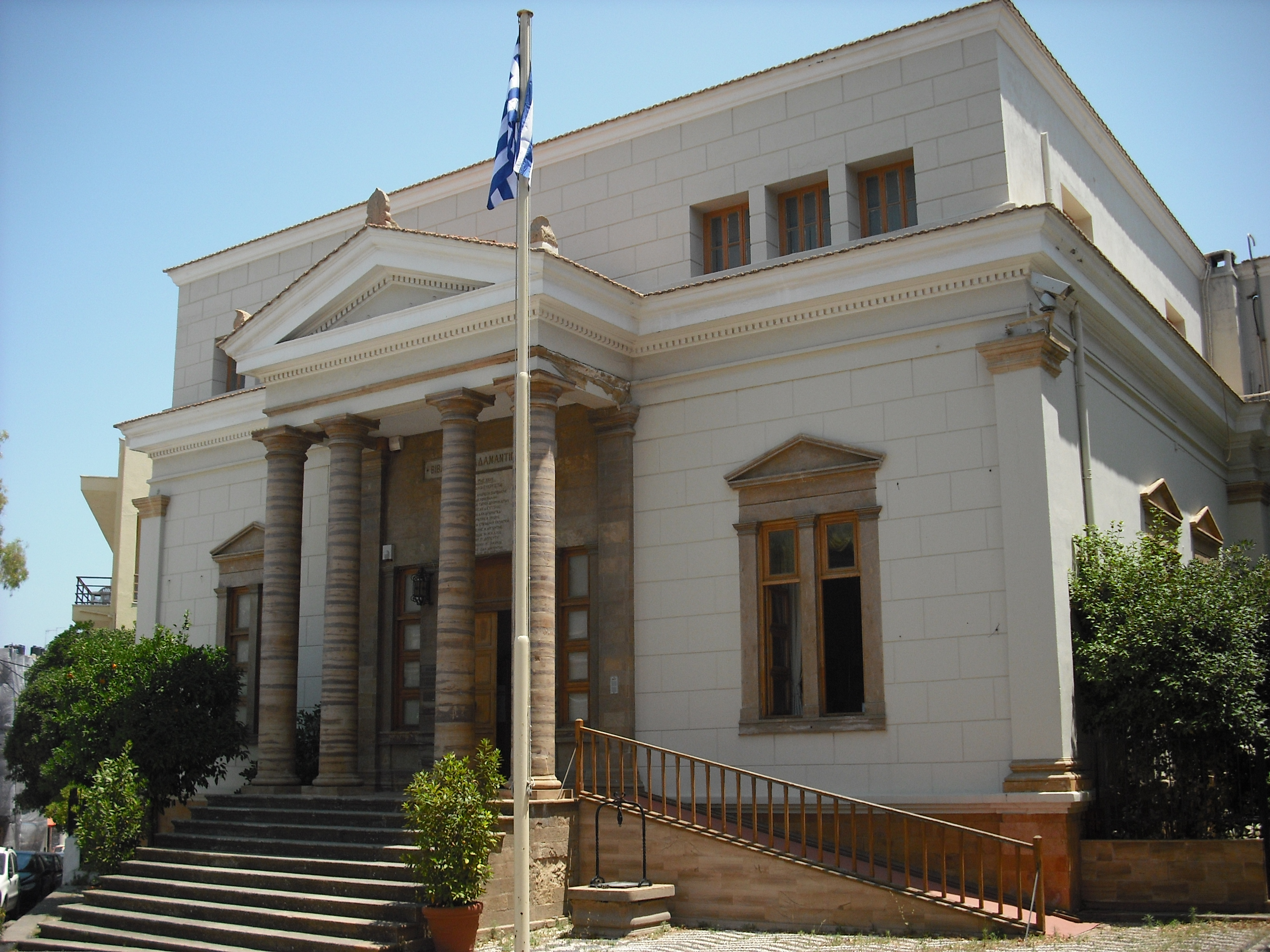 Koraes Public Library in Chios